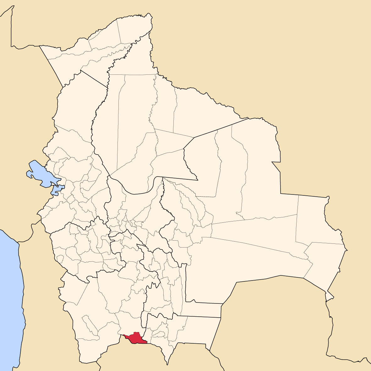 Map of Bolivia showing Modesto Omiste province, Potosí